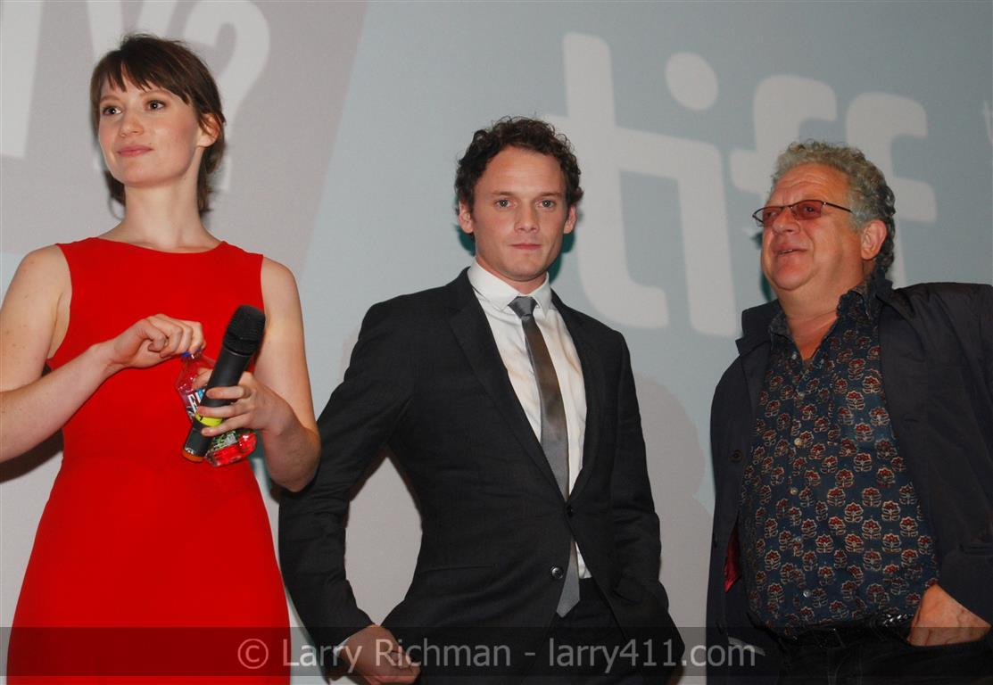 Mia Wasikowska & Anton Yelchin at the "Only Lovers Left Alive" North American Premiere on Thursday, September 5, 2013 at the Ryerson Theatre in Toronto, Canada